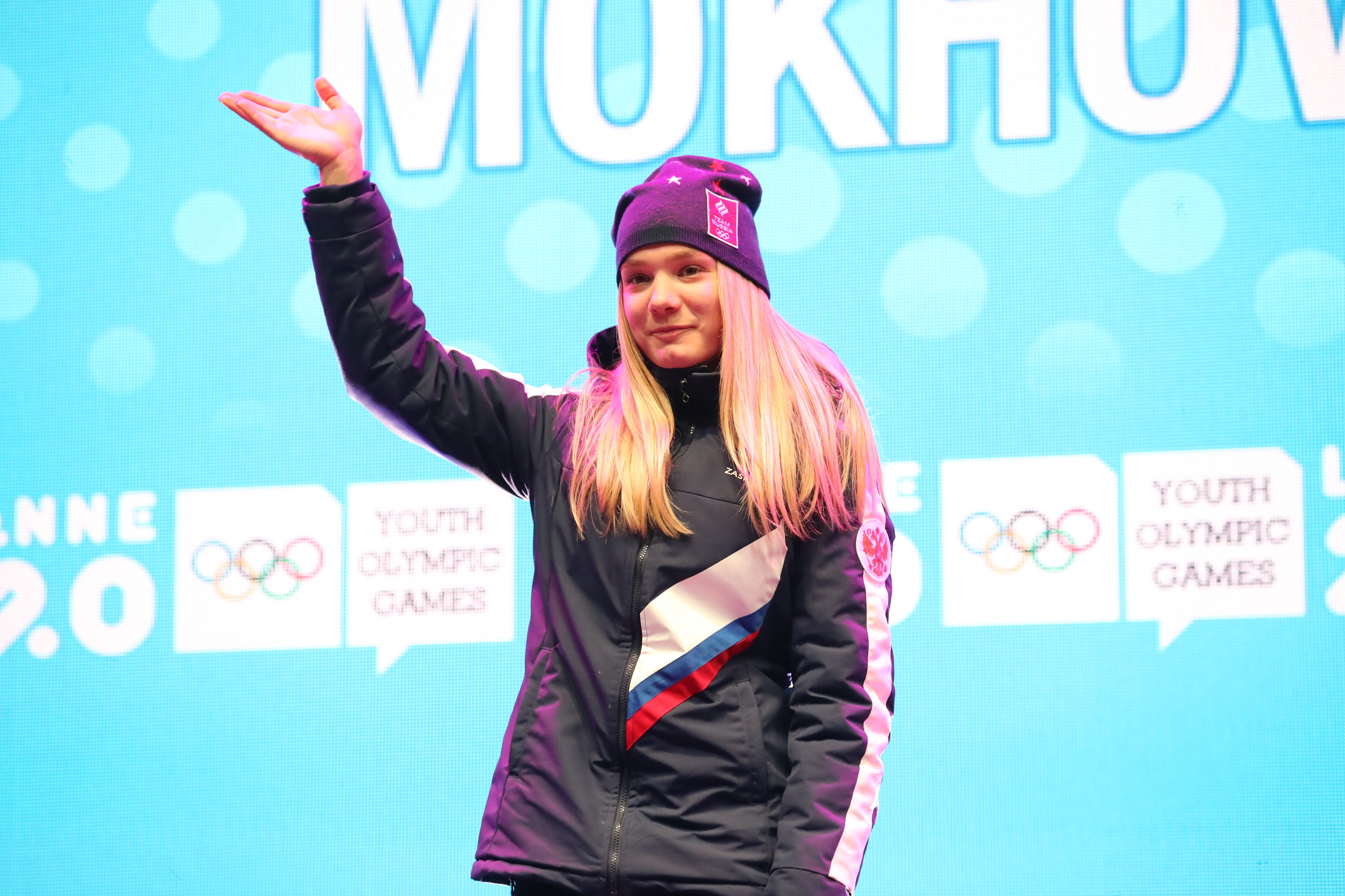 Medal Ceremony Day 5, 2020 Winter Youth Olympics in Lausanne